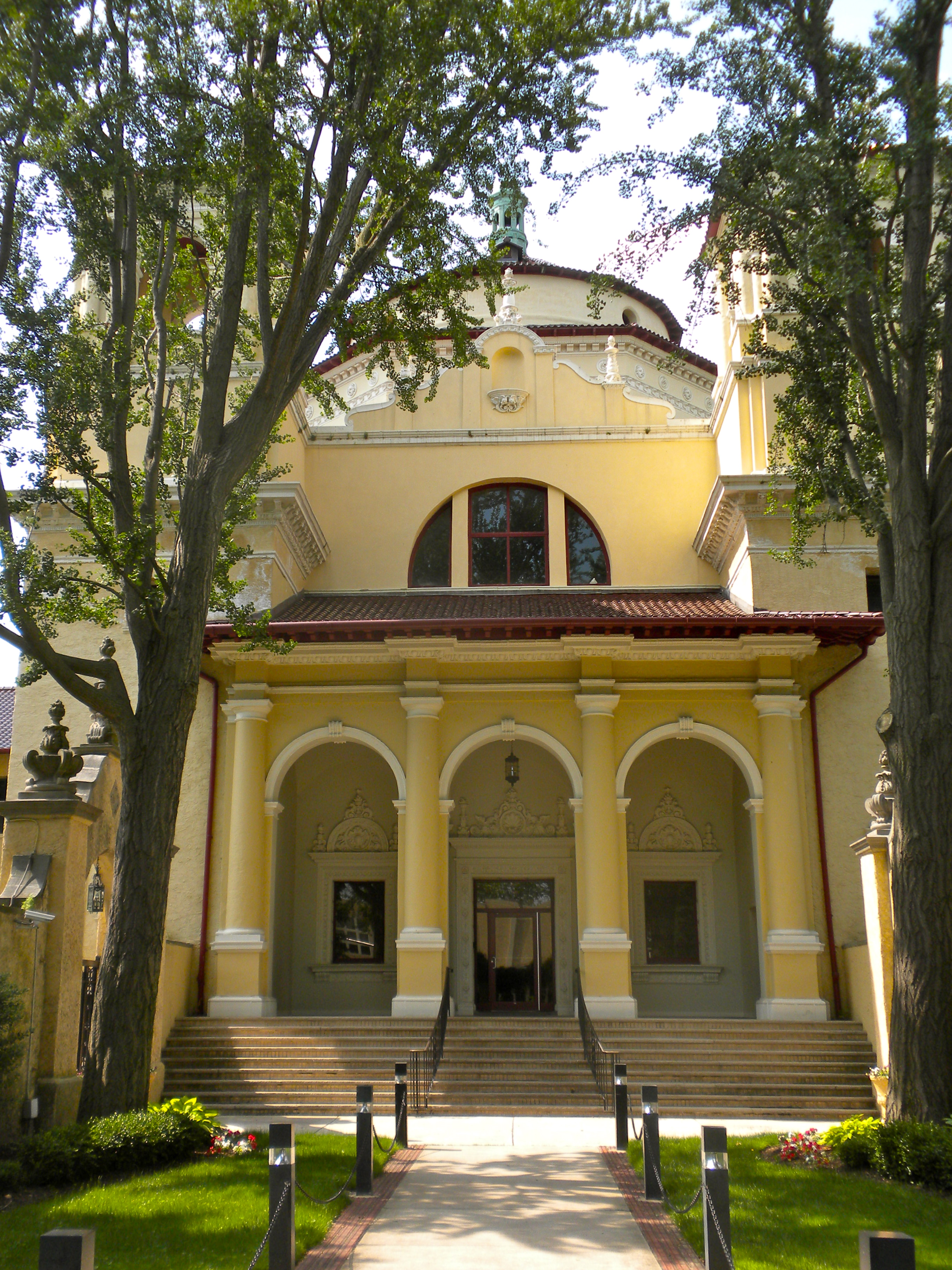 Overbrook School for the Blind on Malvern Ave. west of 63rd Street in West Philadelphia. According to sign on the property, founded 1832. Beautiful buildings in leafy setting, not to my knowledge on the NRHP, but ought to be. Perhaps under another name? Not to be confused with the Overbrook School a couple of blocks east, or the Overbrook High School another couple of blocks east.